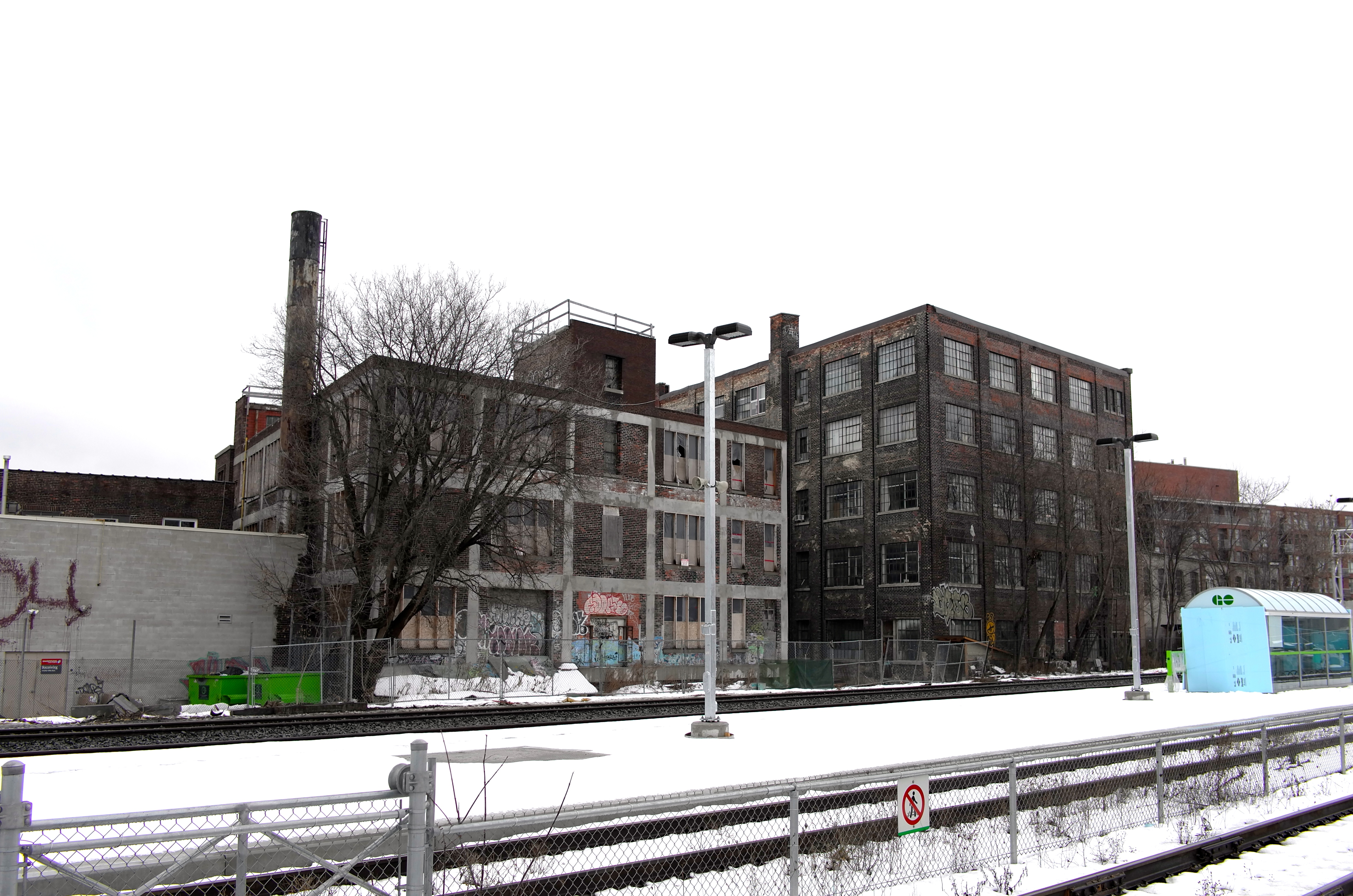 Junction-area warehouses beside Bloor GO Station